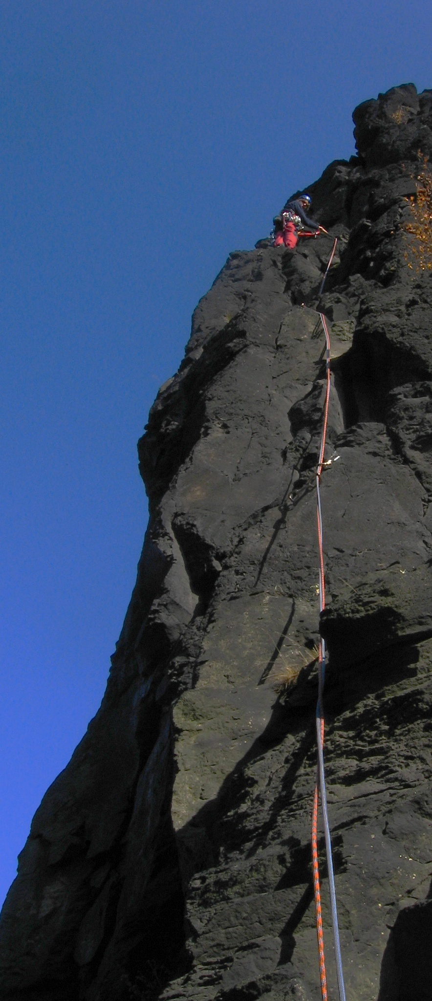 Bořeň is a hill in NW Bohemia with interesting phonolite formations photo by Wikimol September 2005